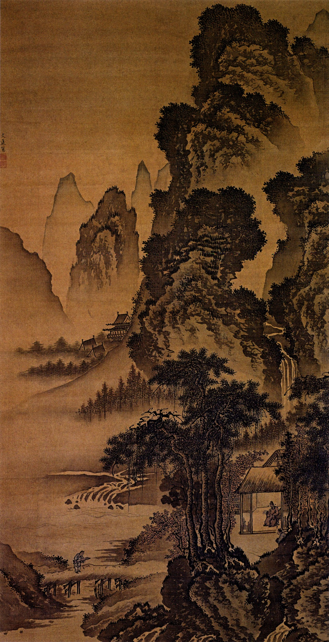 Deep House of Poetry, hanging scroll, color on silk, 194 x 104 cm. Located at the Liaoning Provincial Museum.